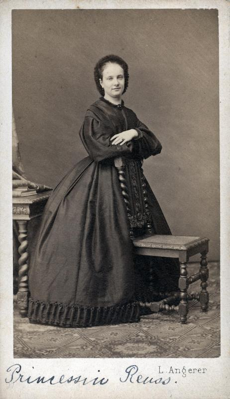 Princess Luise Reuss of Greiz, Princess Eduard of Saxe-Altenburg